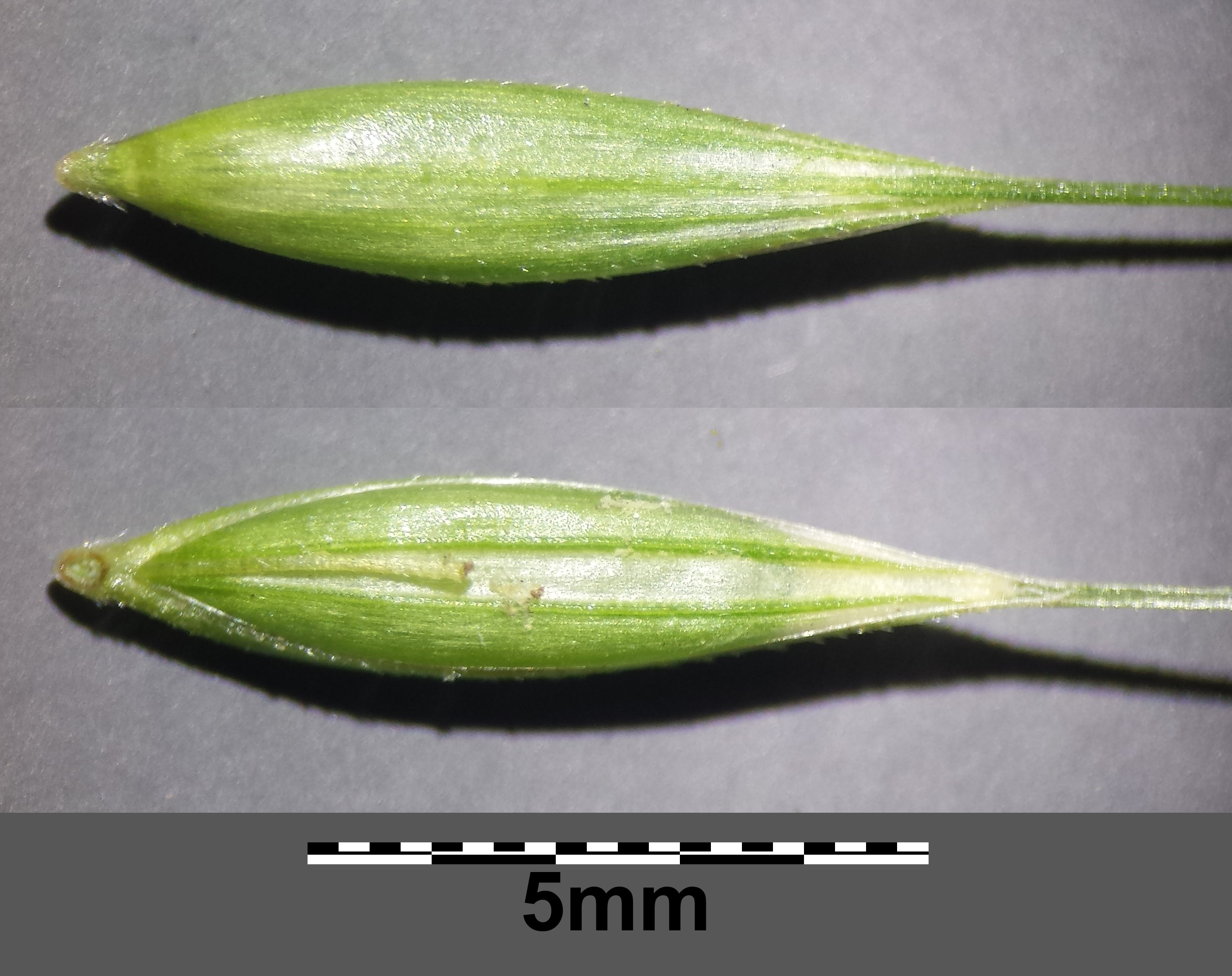 Spikelet Taxonym: Hordelymus europaeus ss Fischer et al. EfÖLS 2008 ISBN 978-3-85474-187-9 Location: Galgenwald east of Merkersdorf, district Korneuburg, Lower Austria - ca. 280 m a.s.l. Habitat: bright wood